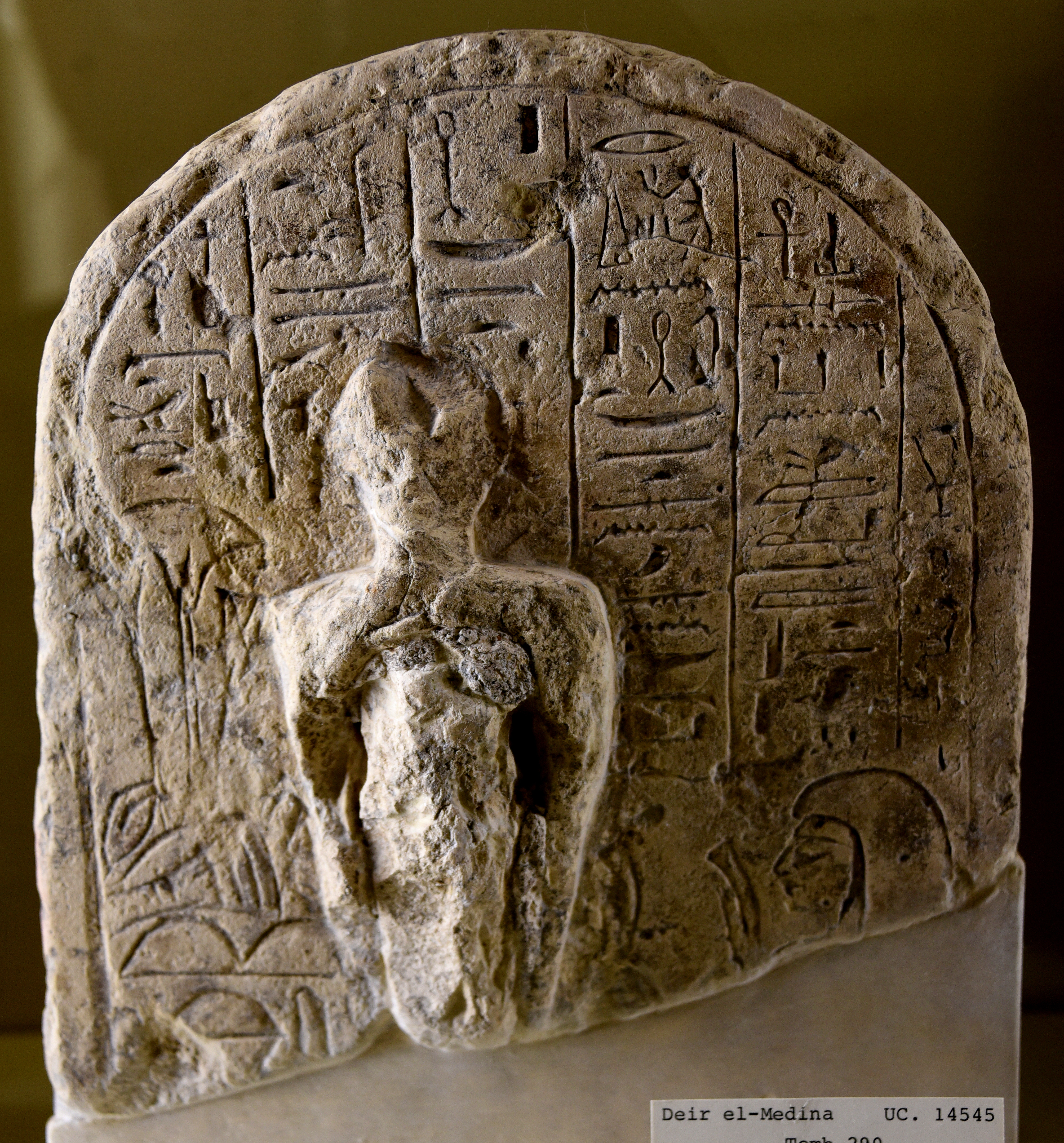 Stela of Irinefer (Irynefer), Servant in the Place of Truth. His face, looking to the left has survived at the right lower part. A central raised relief of Ptah is eroded. 19th Dynasty. From Tomb 290 at Deir el-Medina, Egypt. The Petrie Museum of Egyptian Archaeology, London. With thanks to the Petrie Museum of Egyptian Archaeology, UCL.